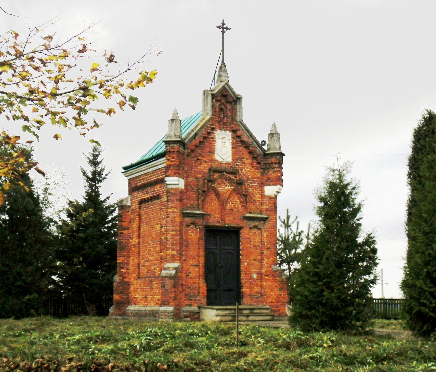 Sheptytsky family tomb in the village Prylbychi, Yavoriv district (Yavoriv Raion). It has been built in 1937.